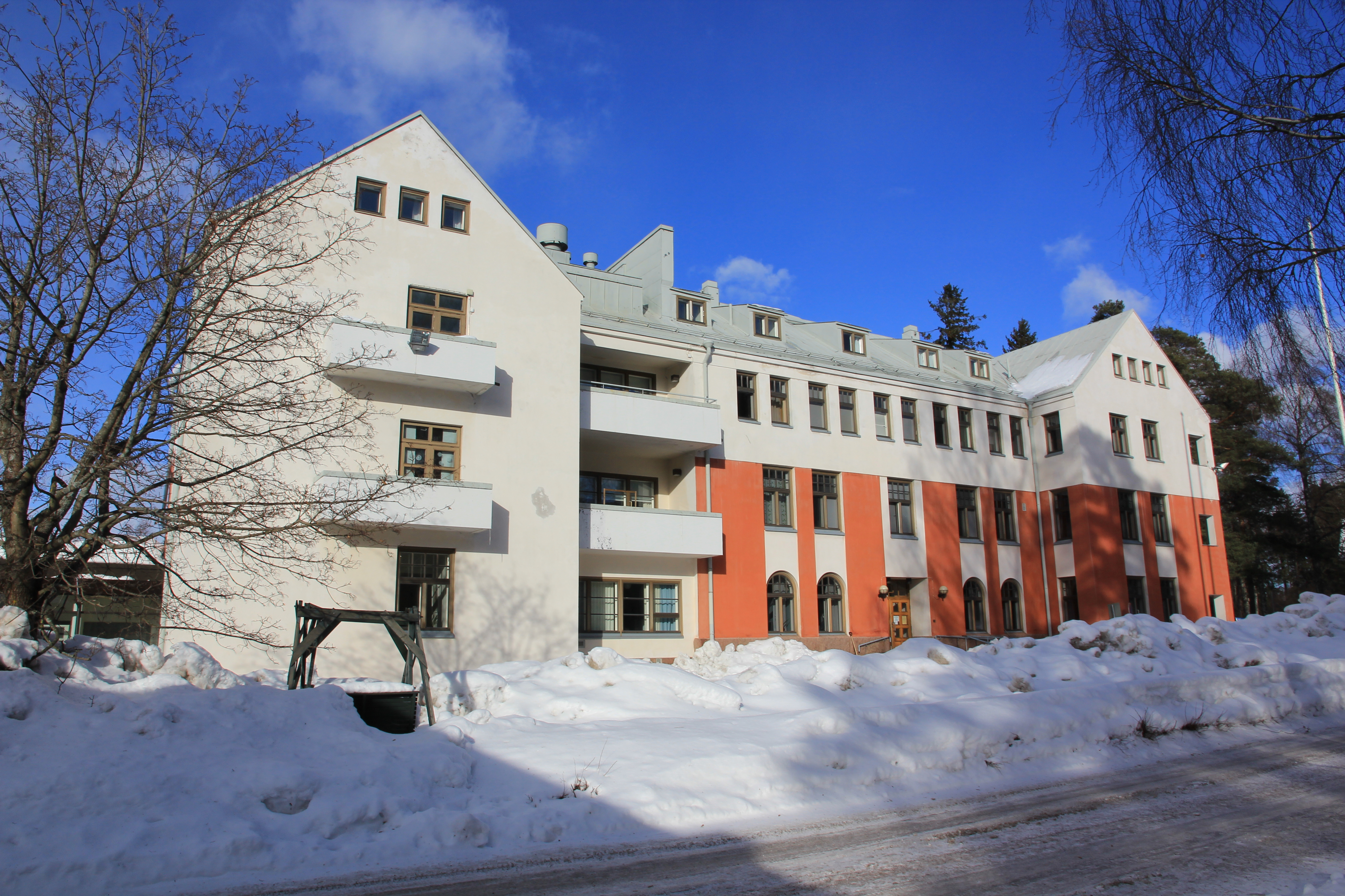 Kauniala war invalid hospital, old wing.